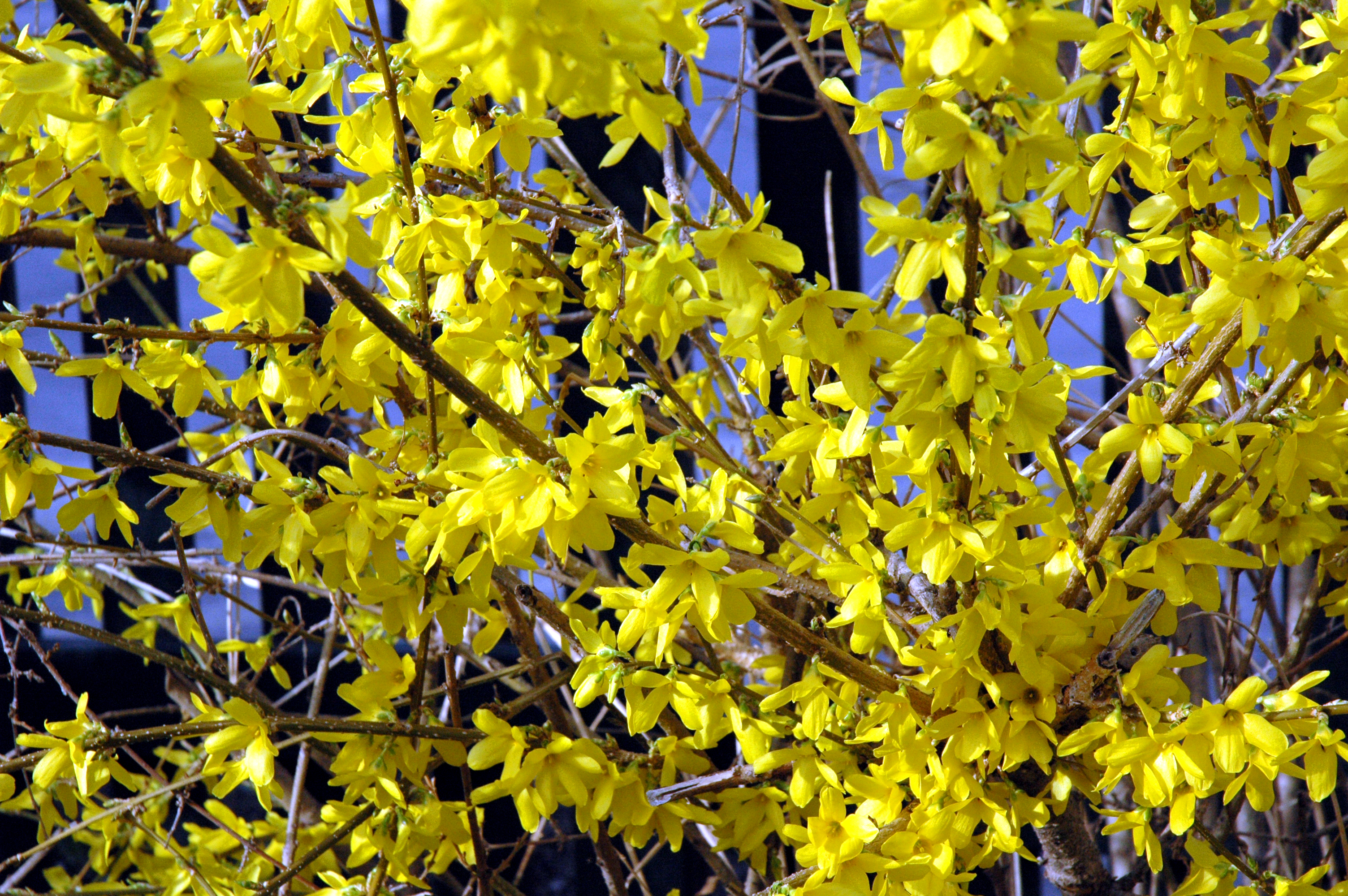 A forsythia bush.